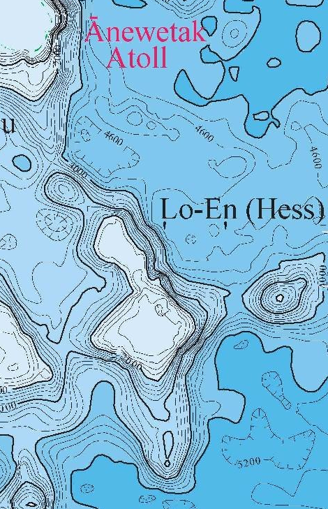 A bathymetric map of seamounts and islands in Micronesia and the Marshall Islands